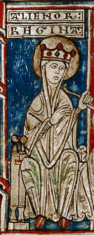 Miniature depicting Eleanor of England, Queen of Castile (1162-1214).